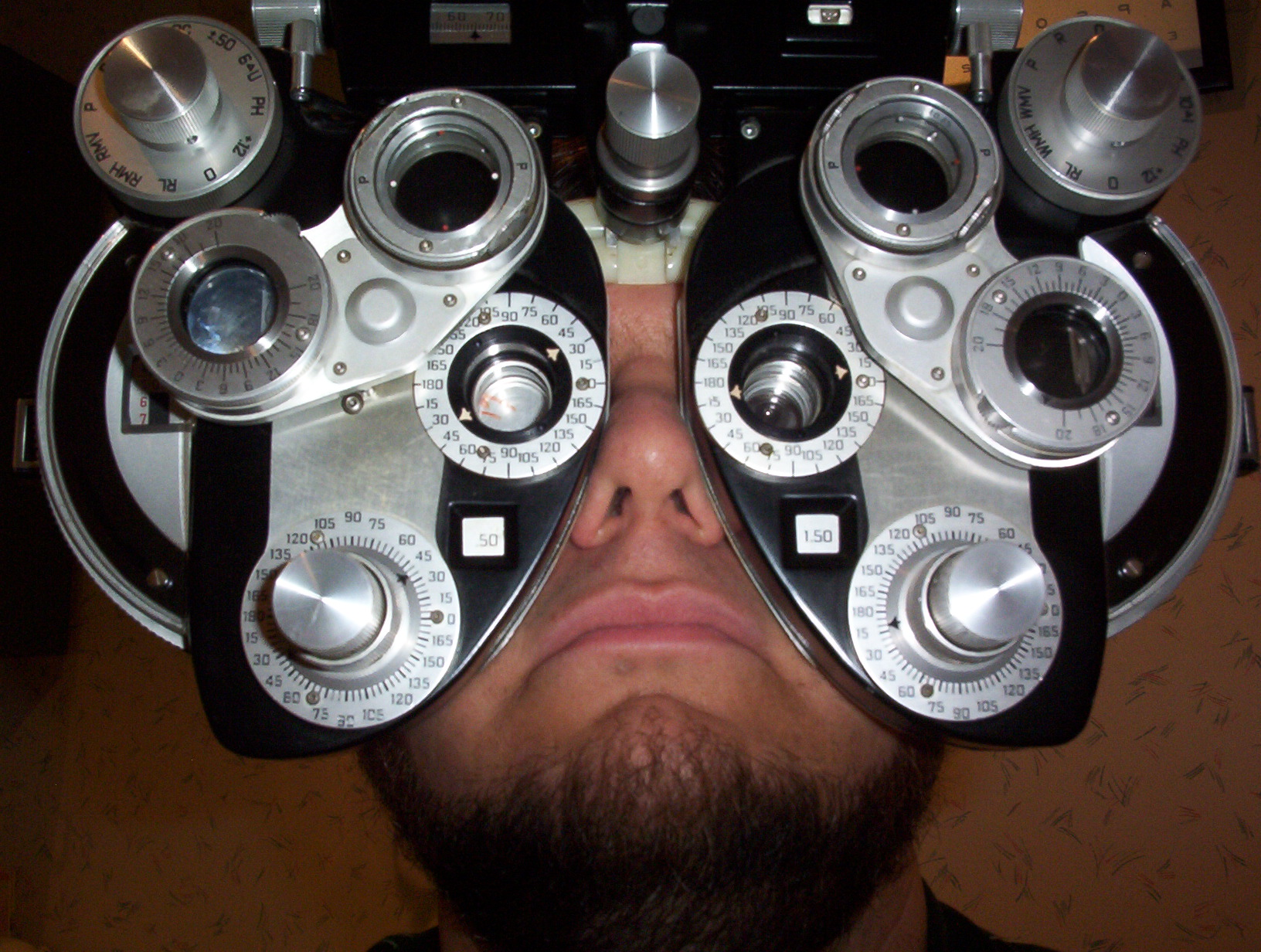 That's the name for this thing that you look through so the optometrist can tune the settings for your eyeglass prescription.